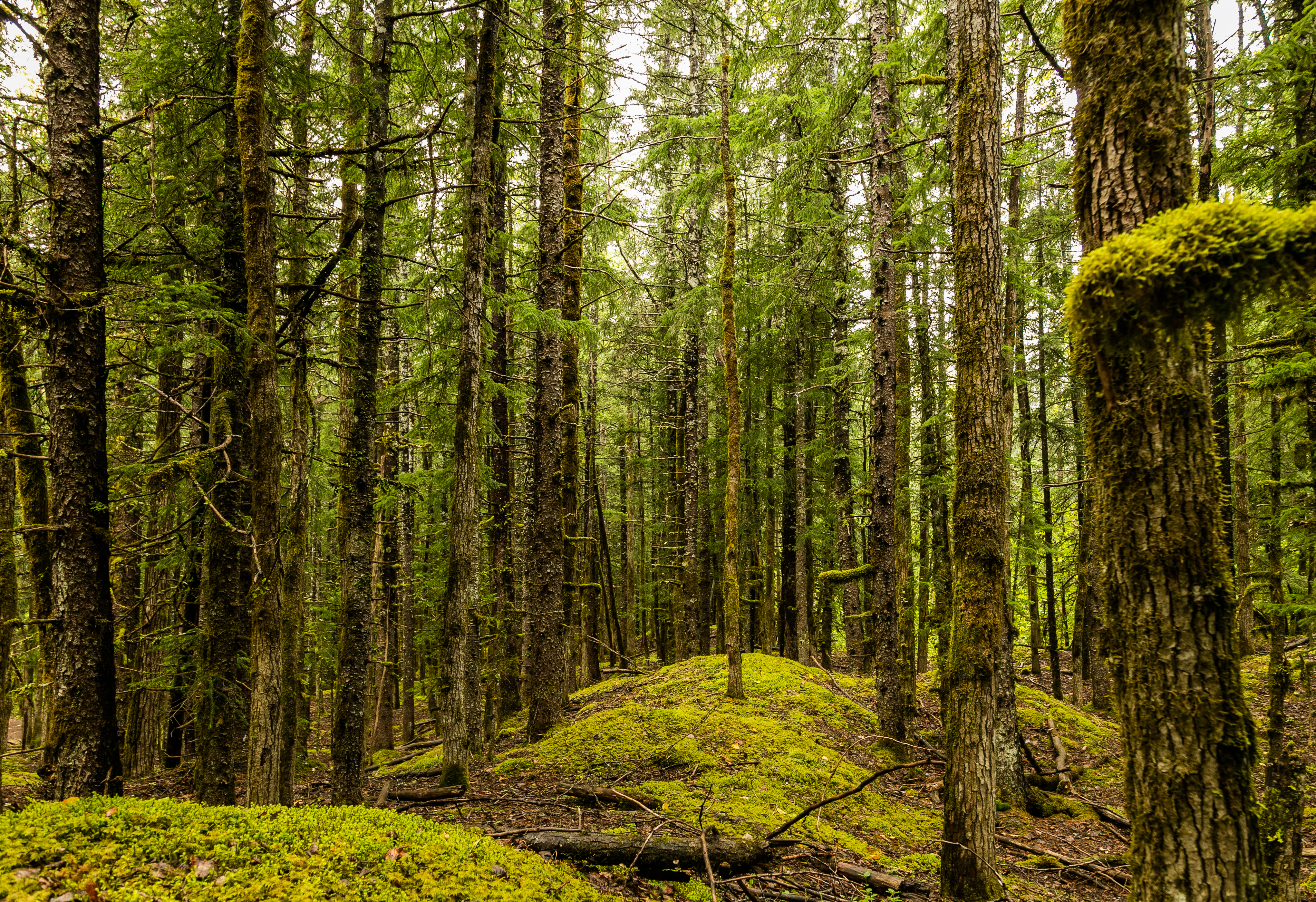 Forest near Davidson Glacier, Haines, Alaska, United States